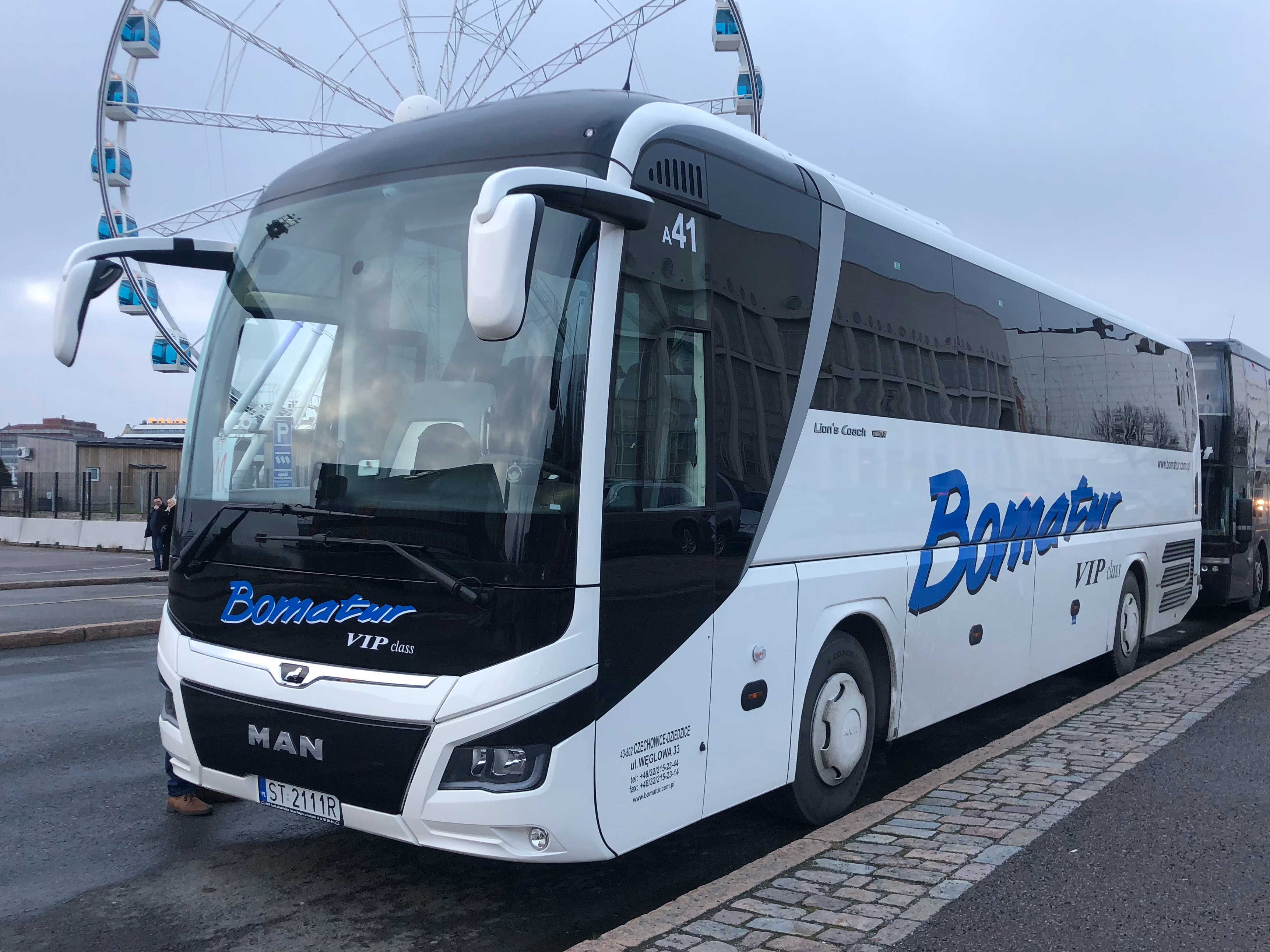 MAN Lion's Coach of Polish Bomatur VIP Travel, spotted in a parking lot near Scandic Hotel, in Helsinki, Finland.